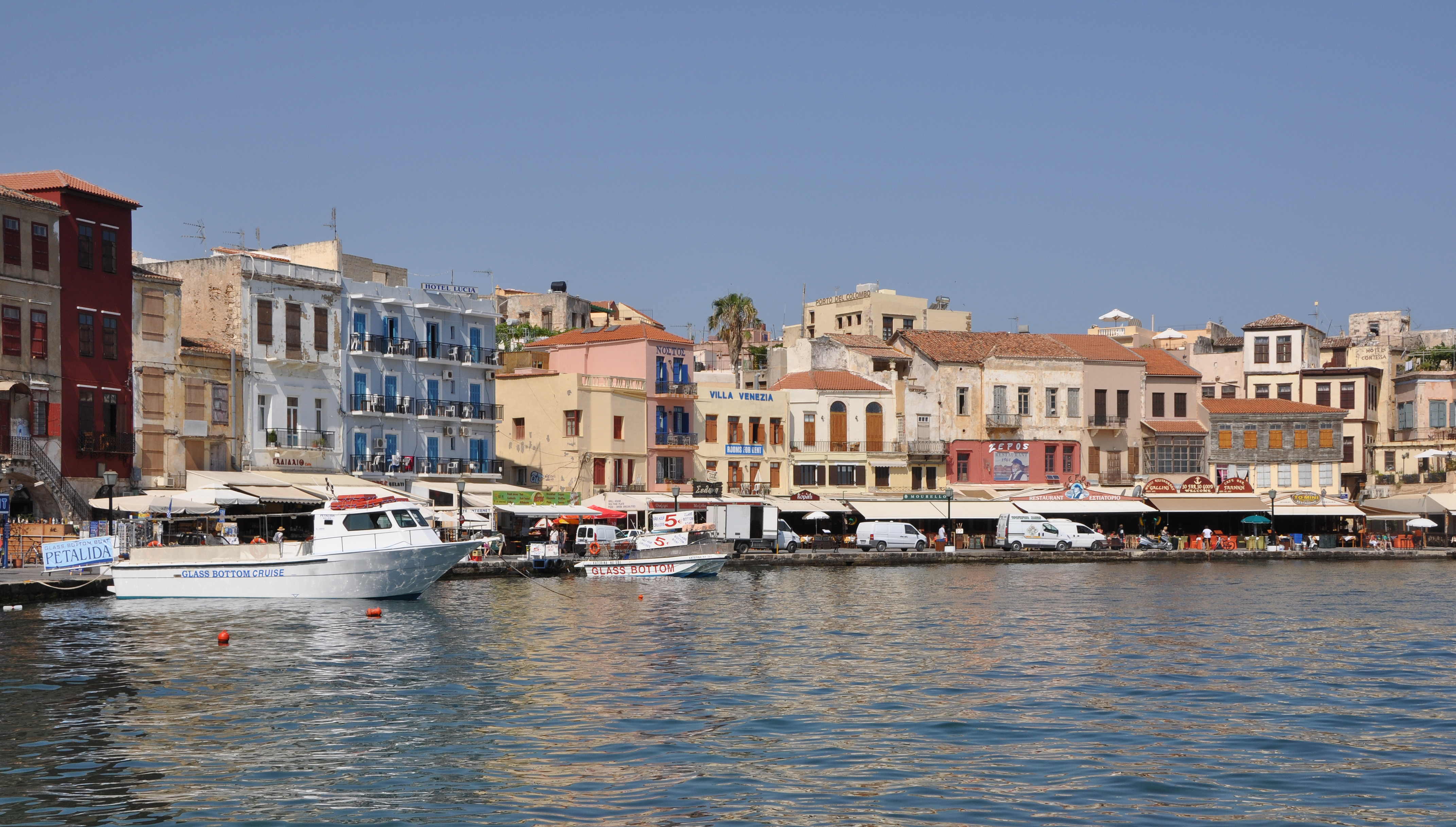 Chania (Crete, Greece): the old harbour